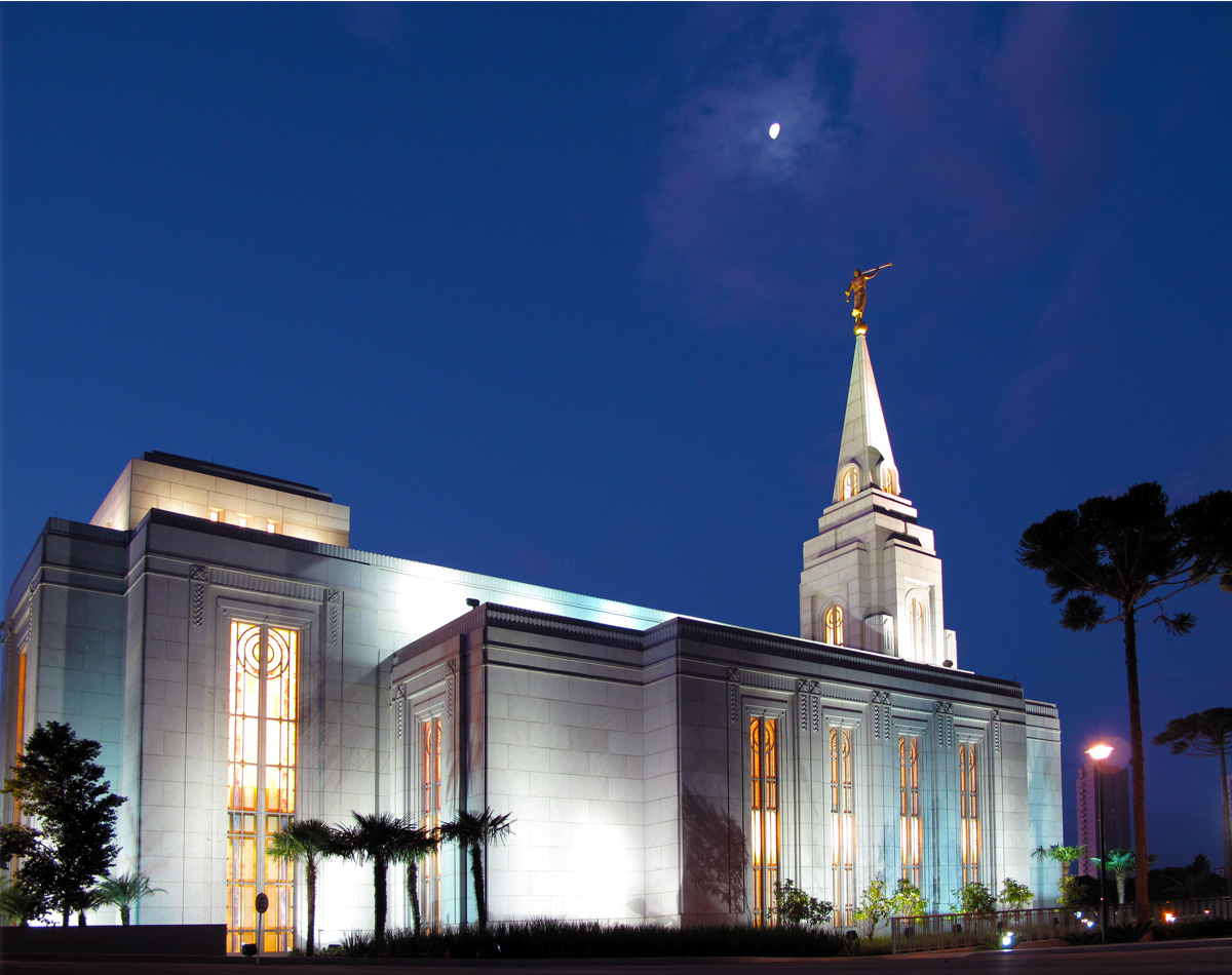 The Curitiba Brazil Temple of The Church of Jesus Christ of Latter-day Saints.